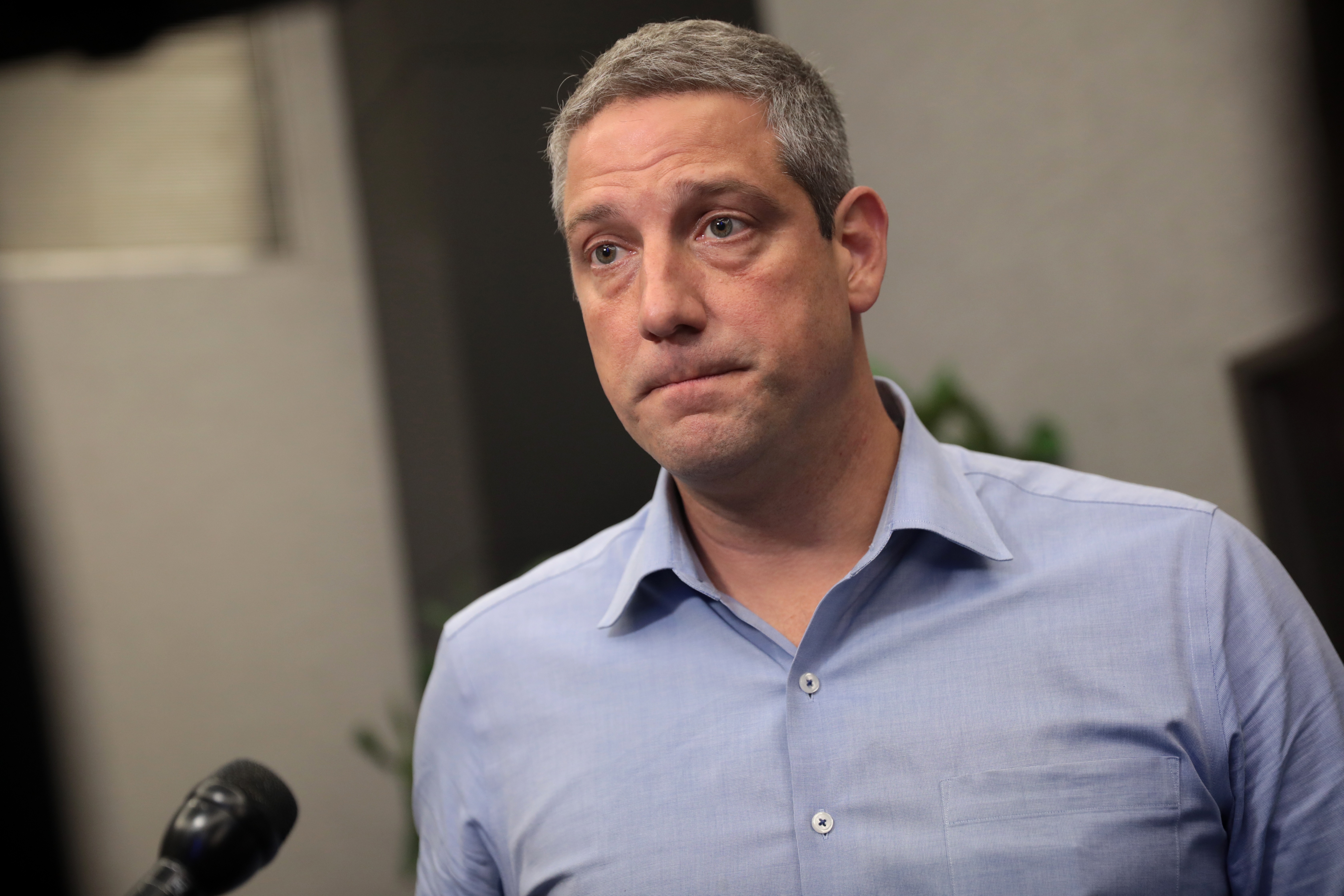 U.S. Congressman Tim Ryan speaking with the media at the 2019 Iowa Federation of Labor Convention hosted by the AFL-CIO at the Prairie Meadows Hotel in Altoona, Iowa.